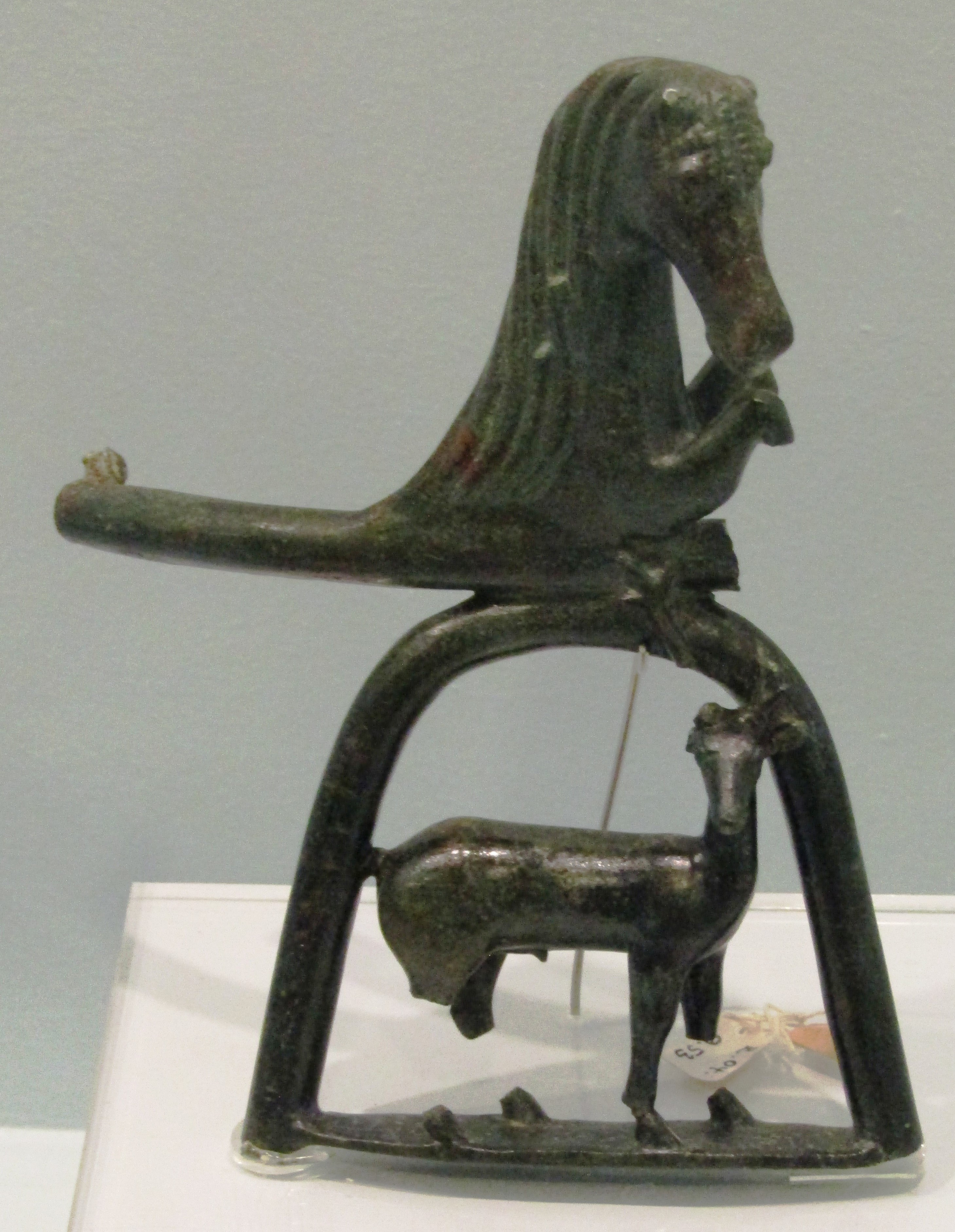 Rim of tripod stand (VI cent. BC)